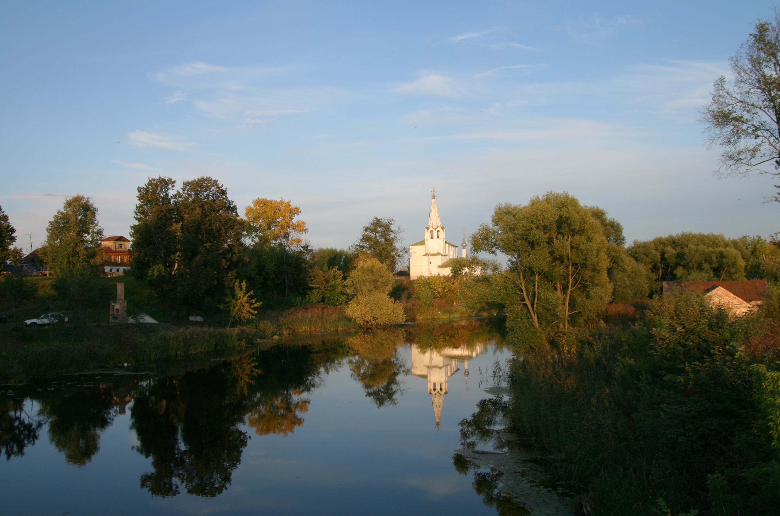 Saints Cosmas and Damian church (1725) from Kamenka River, Suzdal